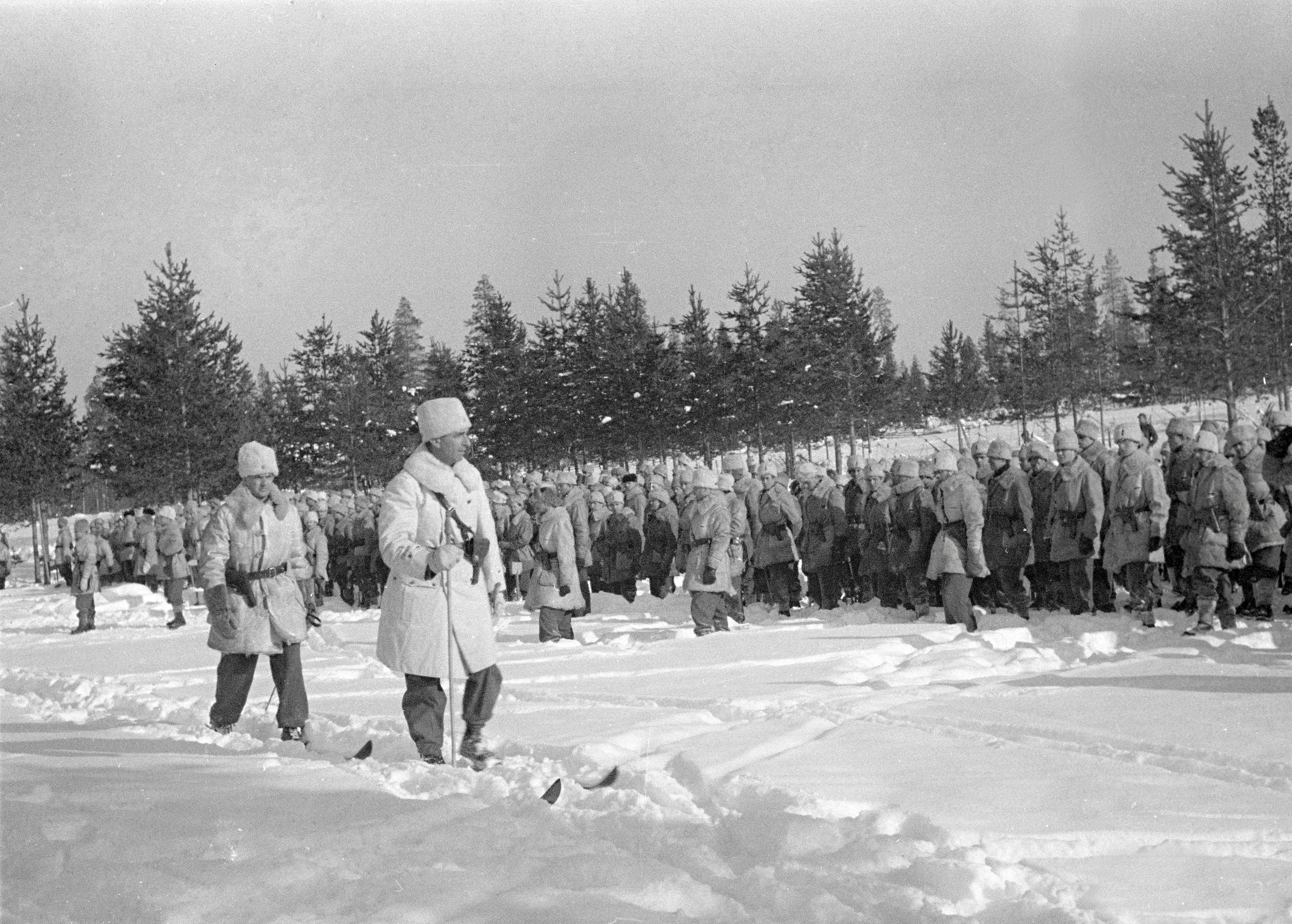 Märkäjärvellä Ruotsal. Jumalanpalvelus